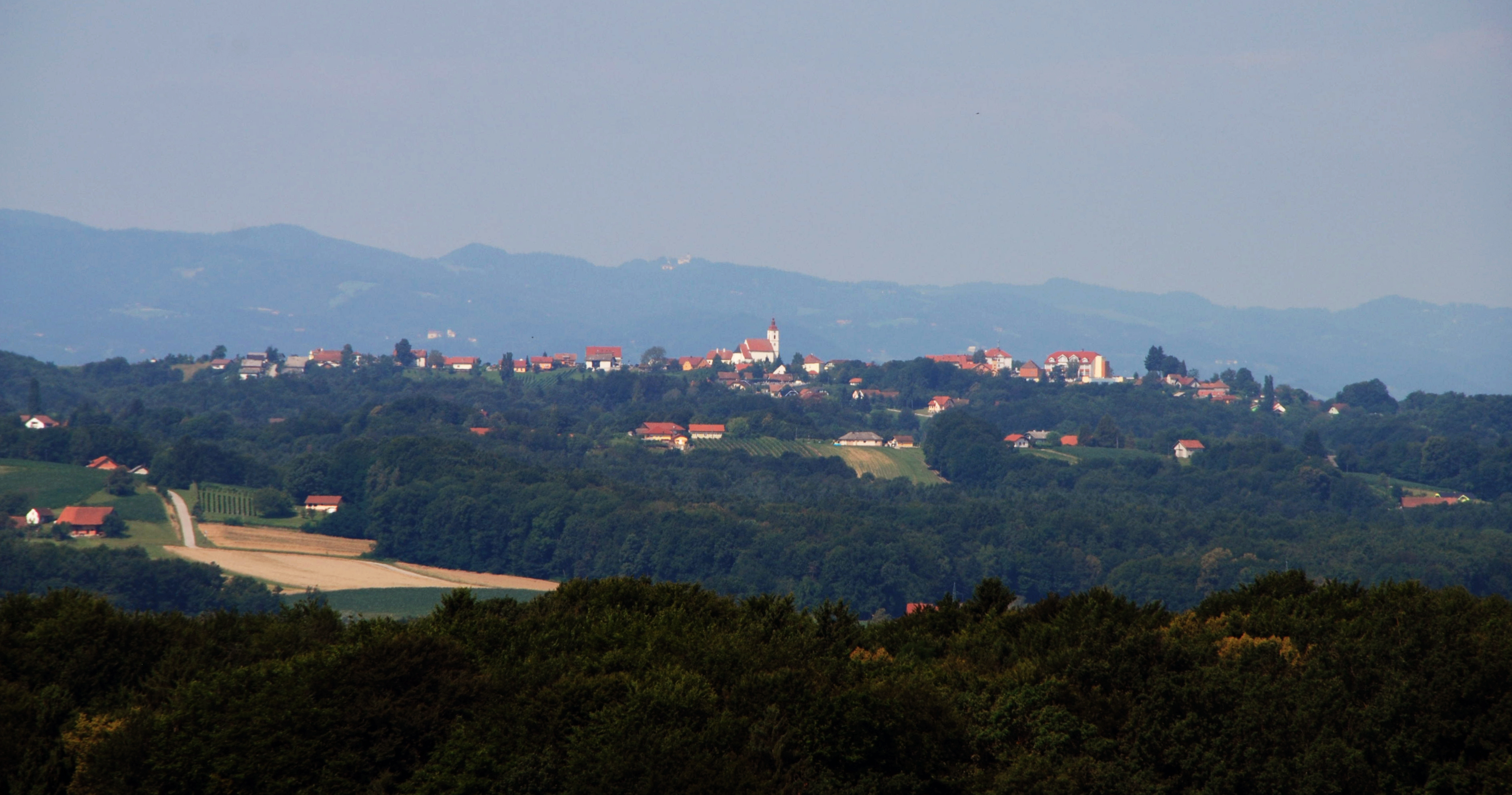 The village of Sveta Ana v Slovenskih Goricah, viewed from Aženski Vrh (east).